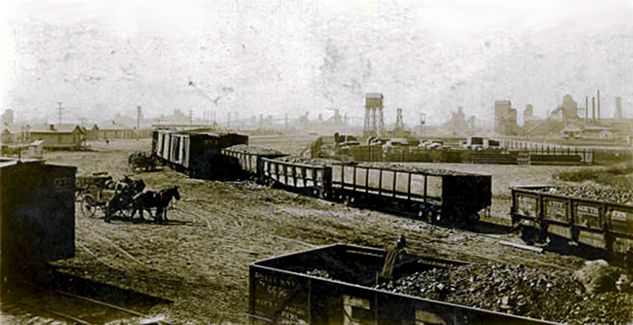 View of Cardin mines, plant, and rail yard in 1922. Picher Field, Tri-State District.